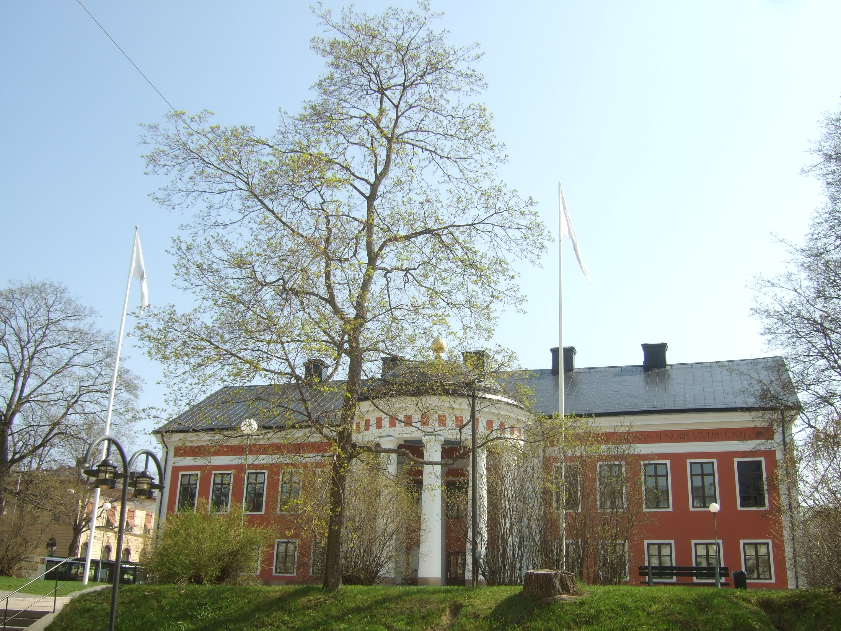 The house of "Härnösands rådhus" at Nybrogatan 8 in Härnösand, viewed from west (Storgatan)